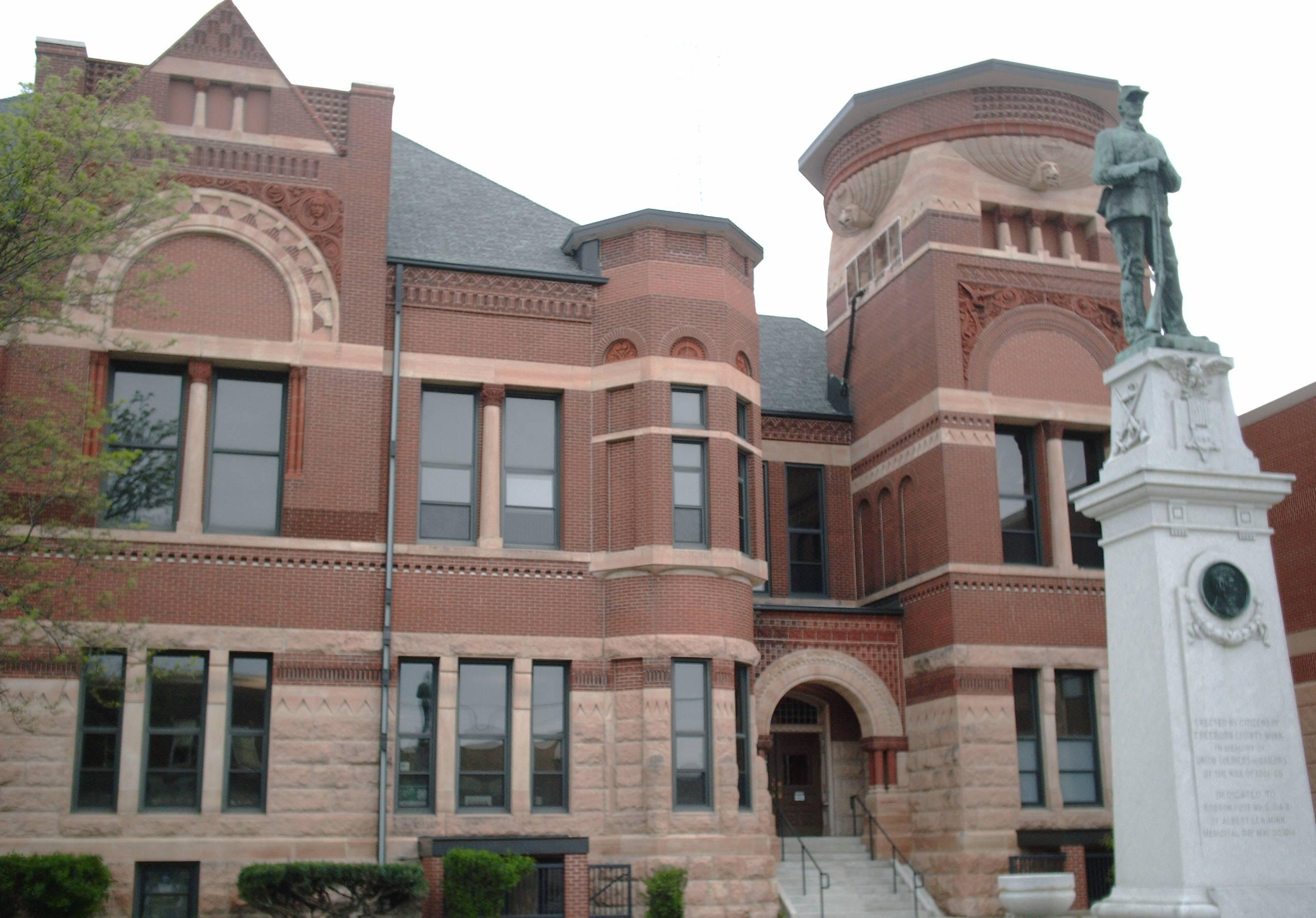 Photo I took 2006-05-21 of the Freeborn County Courthouse in Albert Lea, Minnesota. CC & GFDL.